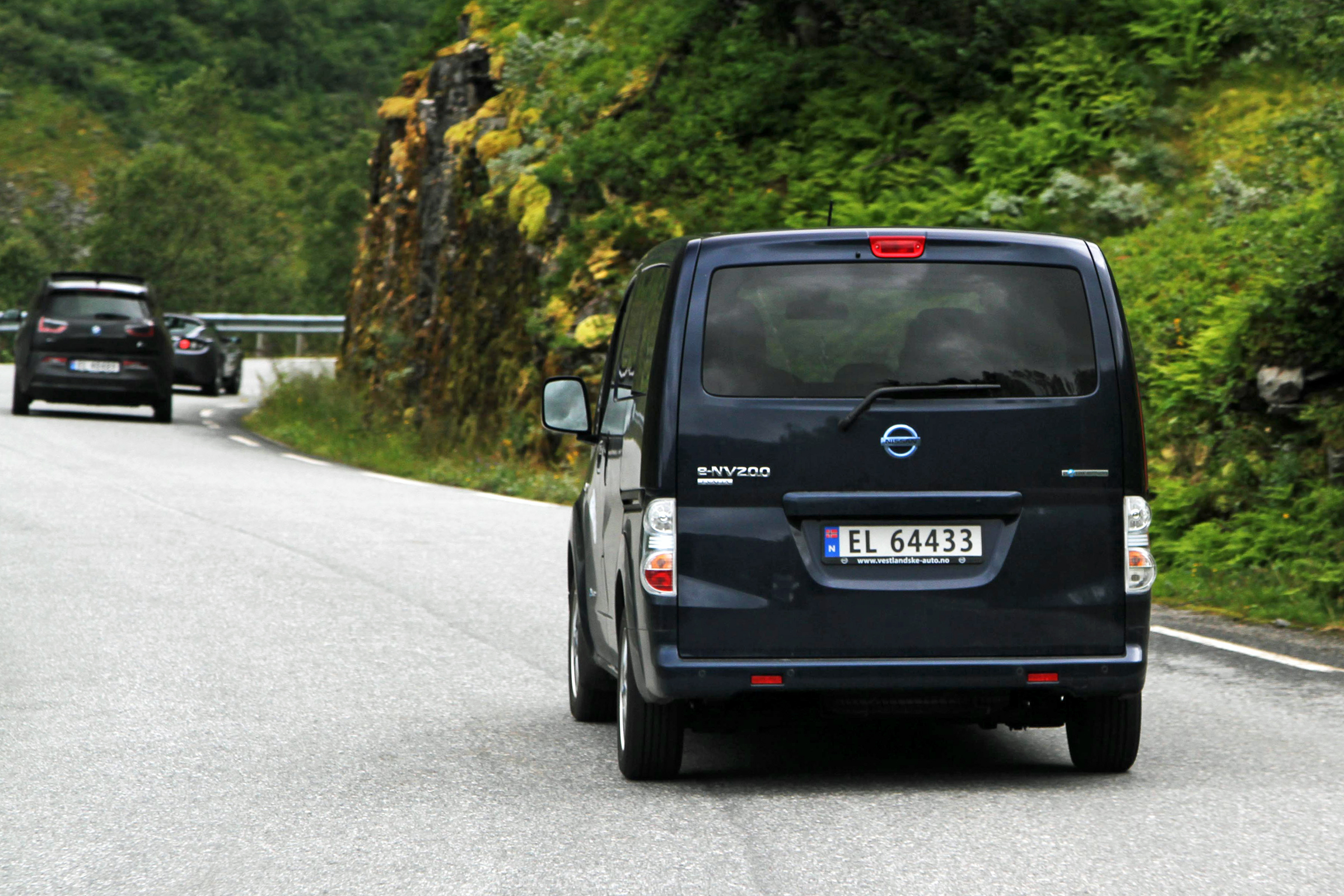 Nissan e-NV200 electric van participating in the EV Festival in Geiranger, Norway